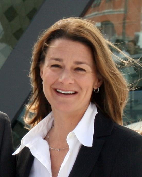 Norwegian PM Melinda Gates at the Gates' visit to the Oslo Opera House in June 2009.